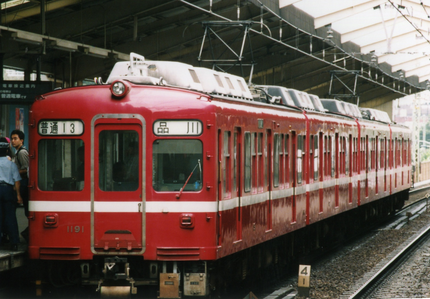 Keikyu No. 1191 at Shimbamba Station